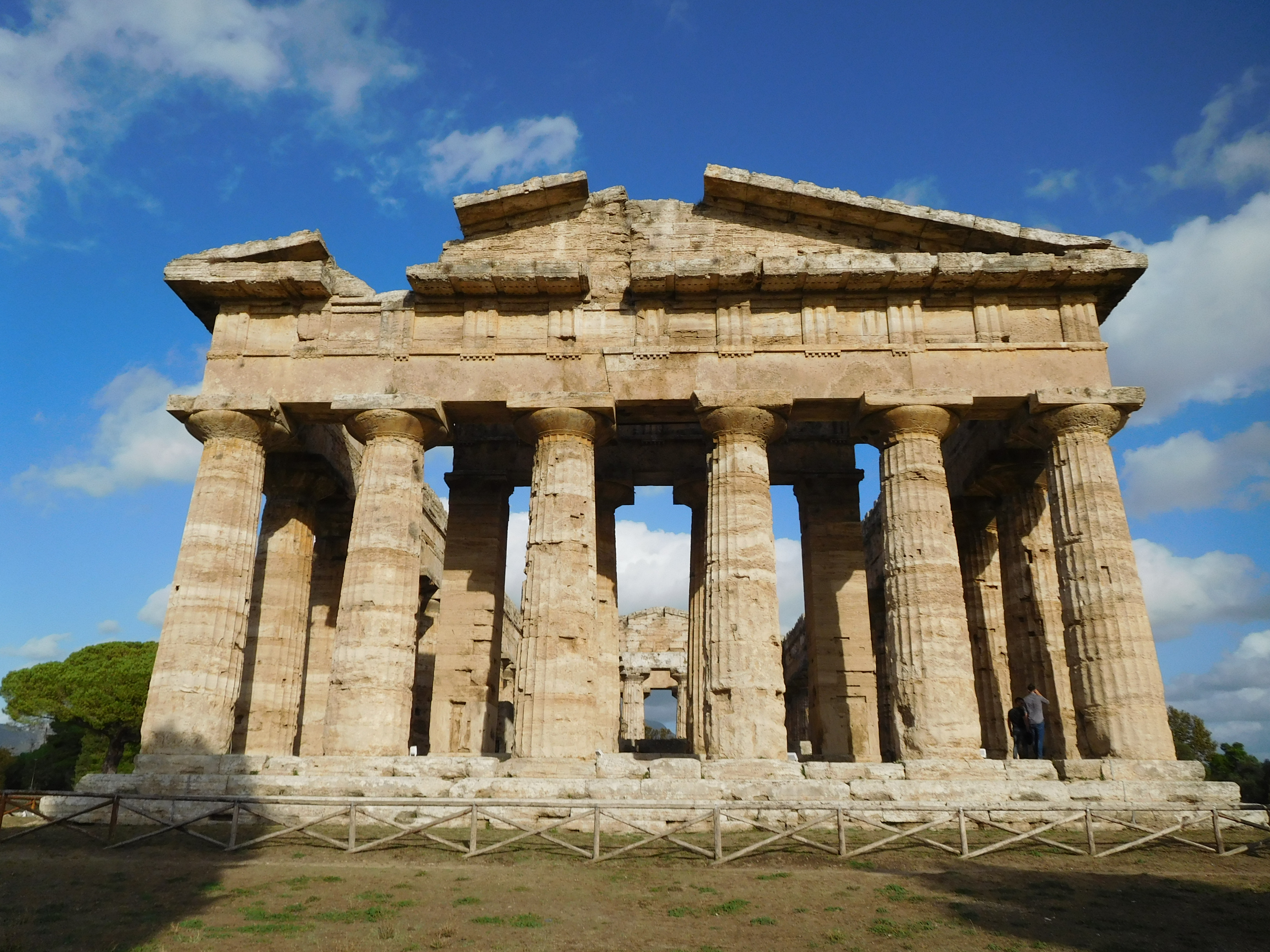 Temple of Poseidon (Paestum) This is a photo of a monument which is part of cultural heritage of Italy.